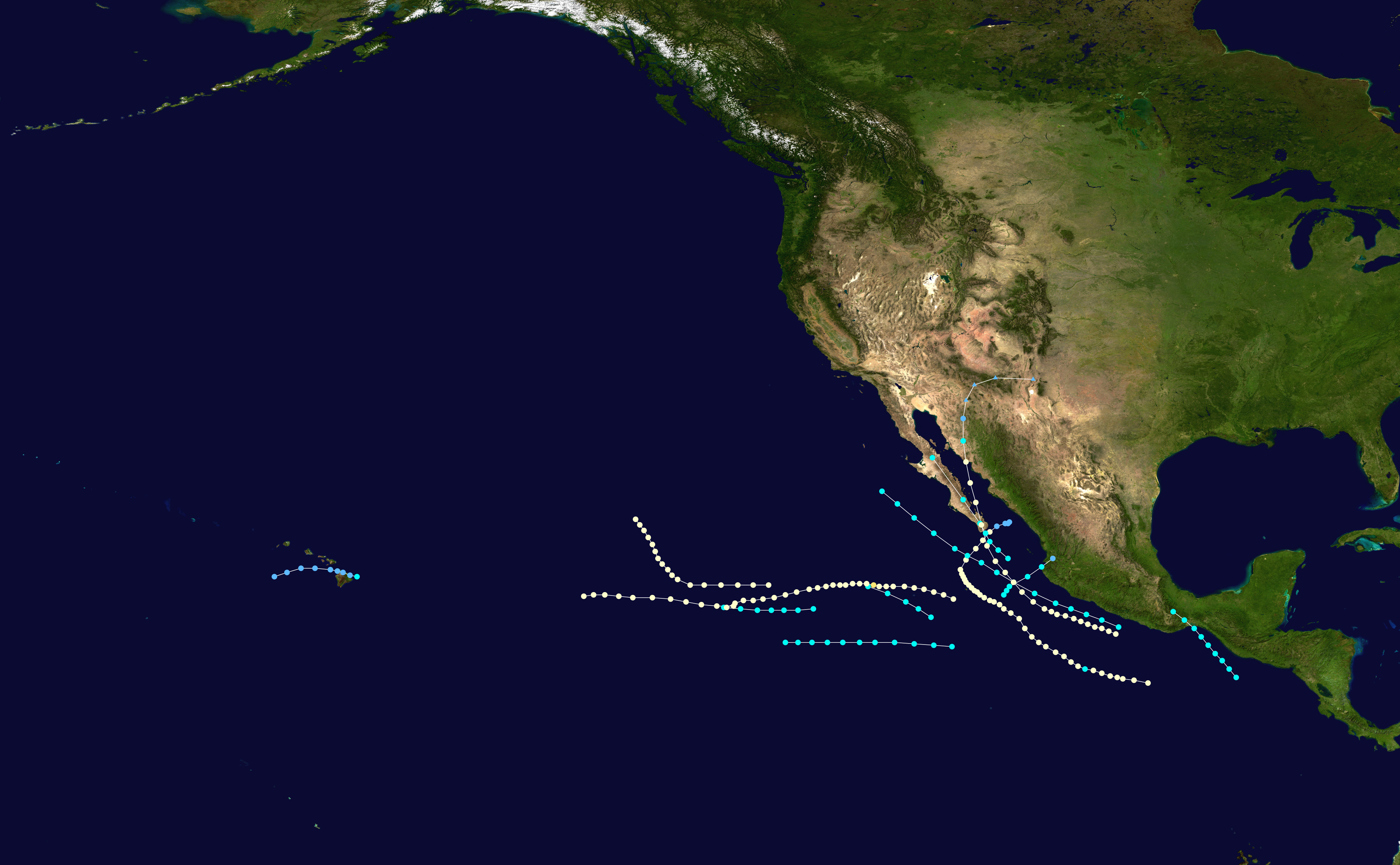 This map shows the tracks of all tropical cyclones in the 1958 Pacific hurricane season. The points show the location of each storm at 6-hour intervals. The colour represents the storm's maximum sustained wind speeds as classified in the Saffir-Simpson Hurricane Scale (see below), and the shape of the data points represent the type of the storm. Saffir–Simpson hurricane wind scale Tropical depression≤38 mph≤62 km/h Category 3111–129 mph178–208 km/h Tropical storm39–73 mph63–118 km/h Category 4130–156 mph209–251 km/h Category 174–95 mph119–153 km/h Category 5≥157 mph≥252 km/h Category 296–110 mph154–177 km/h Unknown Storm typeTropical cycloneSubtropical cycloneExtratropical cyclone / Remnant low / Tropical disturbance